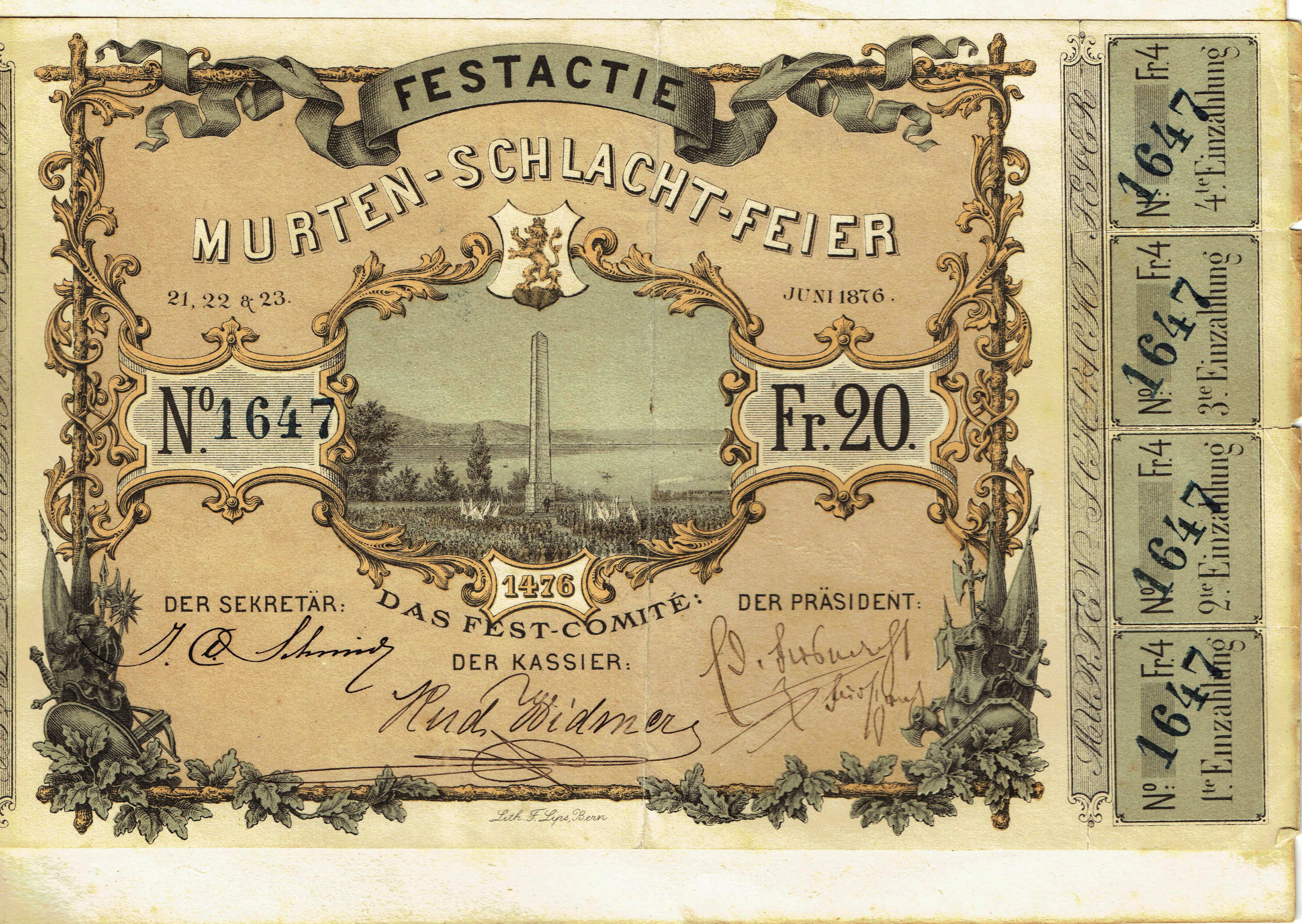 Funding share for the Murten-Schlacht-Feier in the year 1876